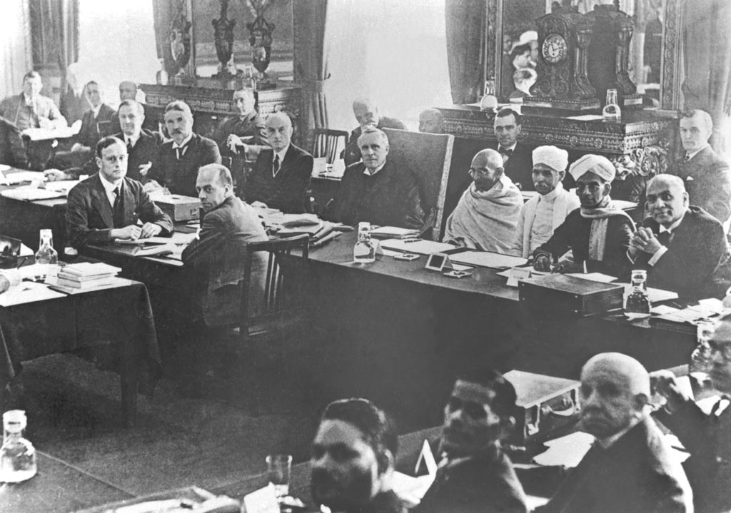 During the Federal Structure Sub-committee meeting presided over by Lord Sankey, London , November 1931 (Round Table conference).